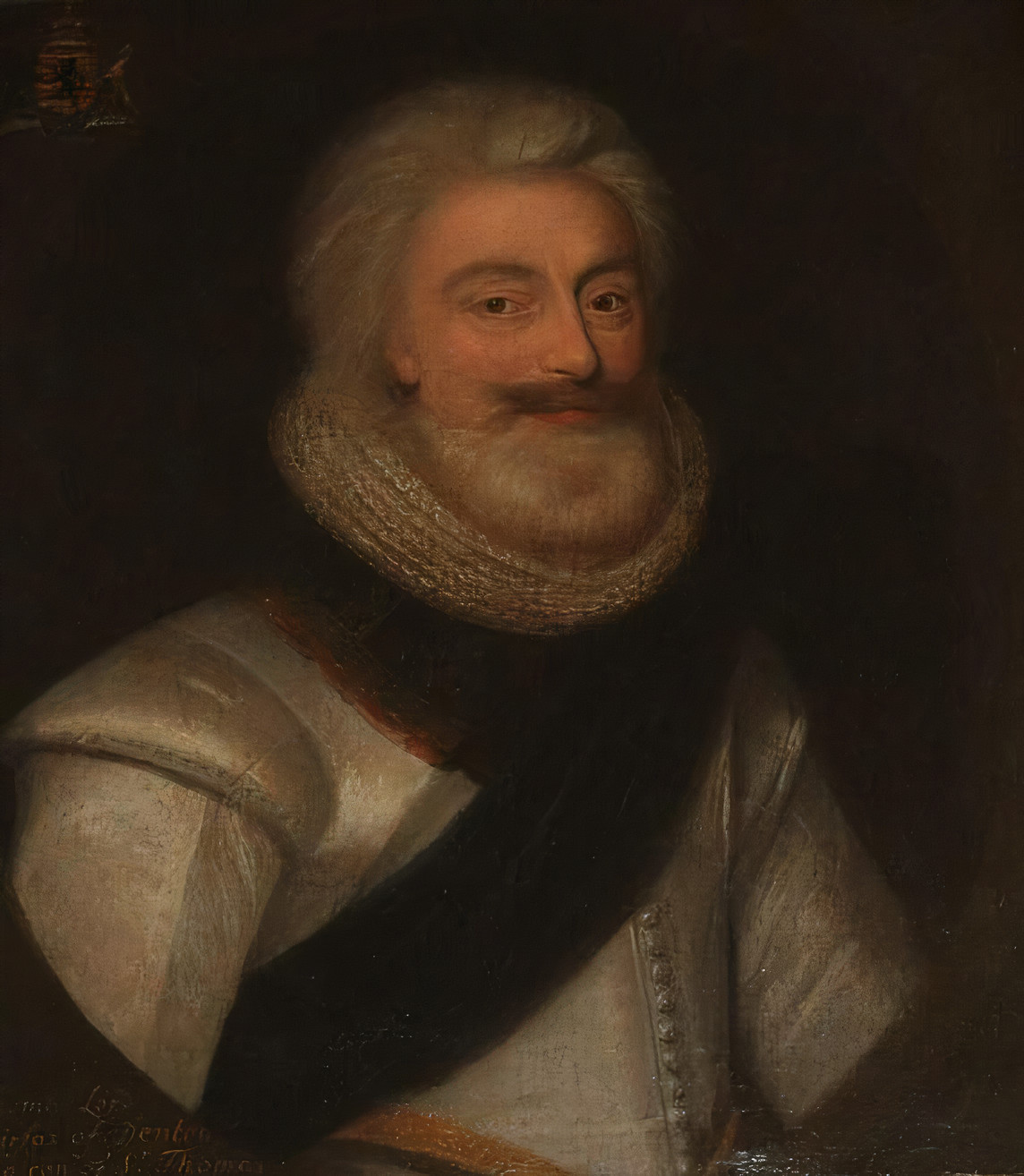 Thomas, 1st Lord Fairfax , with thanks to Leeds castle for allowing photography. Painting attributed to English School, 1629